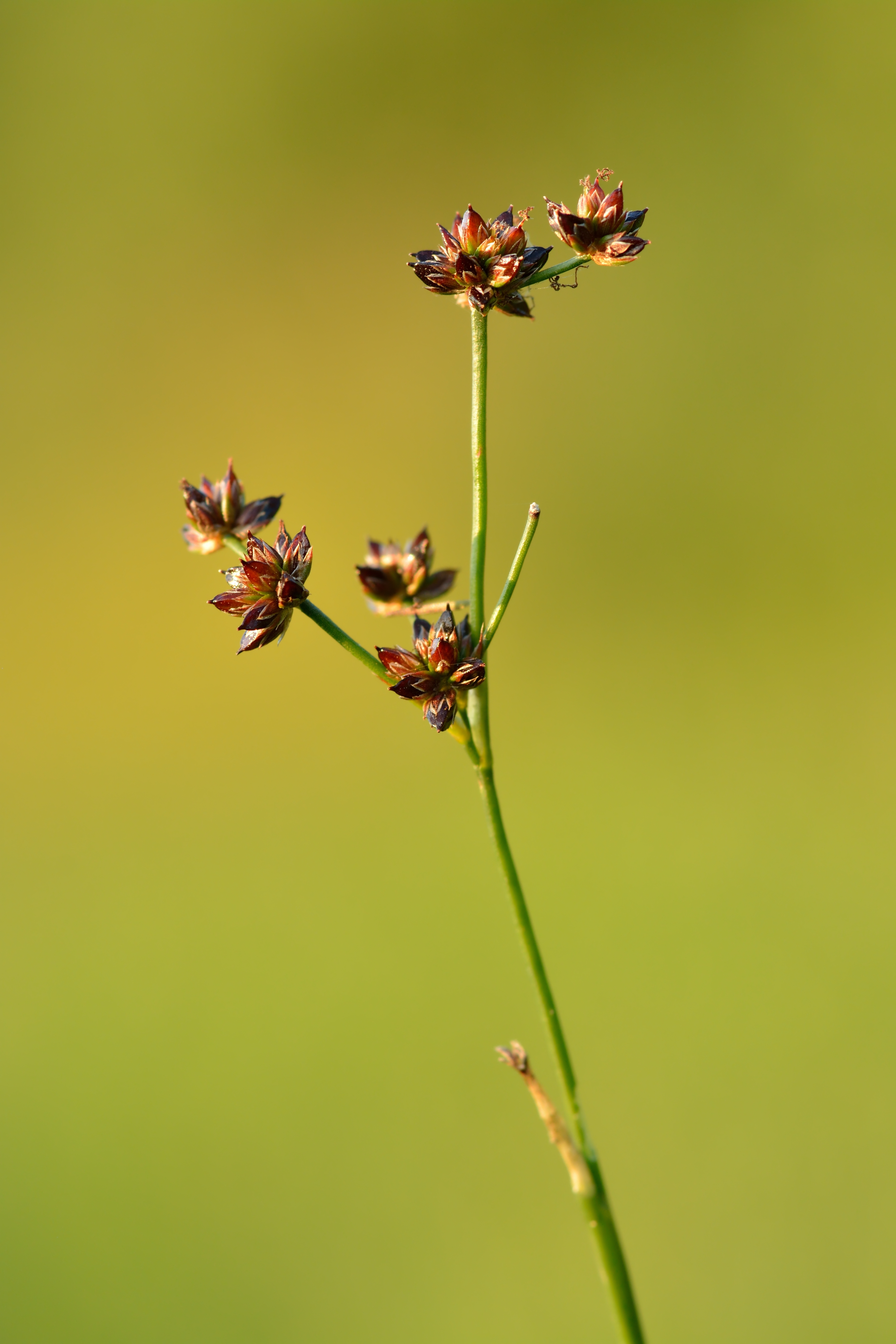 Jointleaf rush with capsules.